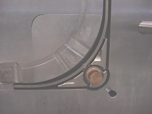 A side of injection molding die with a replaceable insert installed.